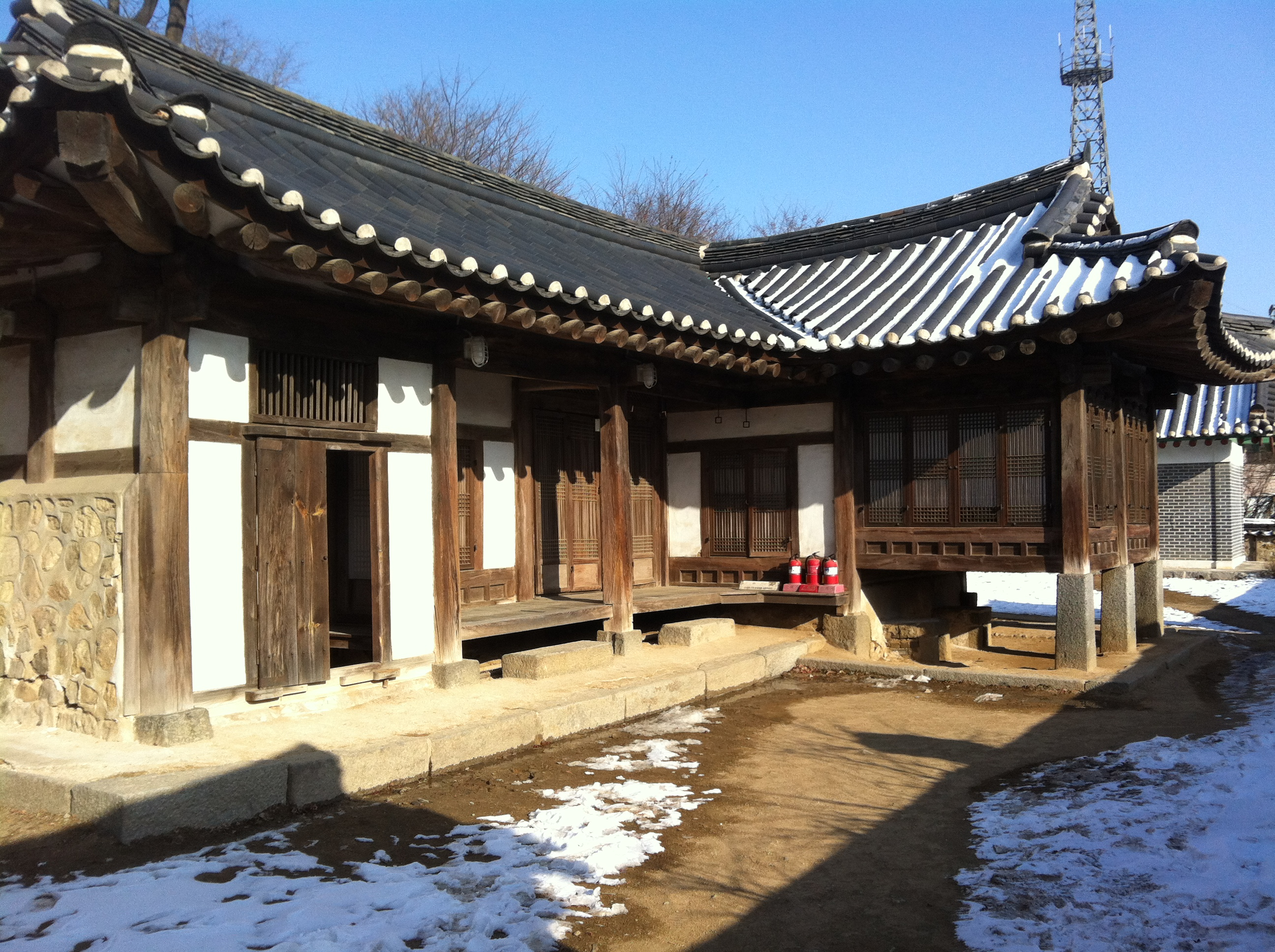 Yongheung-gung; The house of Cheoljong of Joseon's birth.